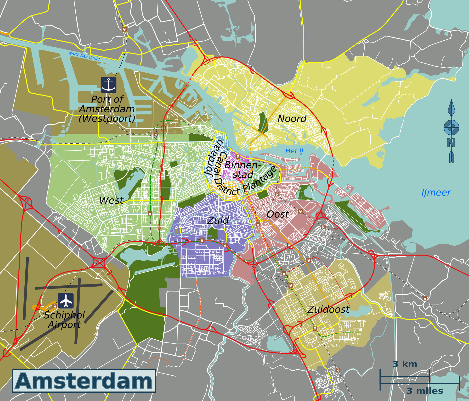 Map of Amsterdam.